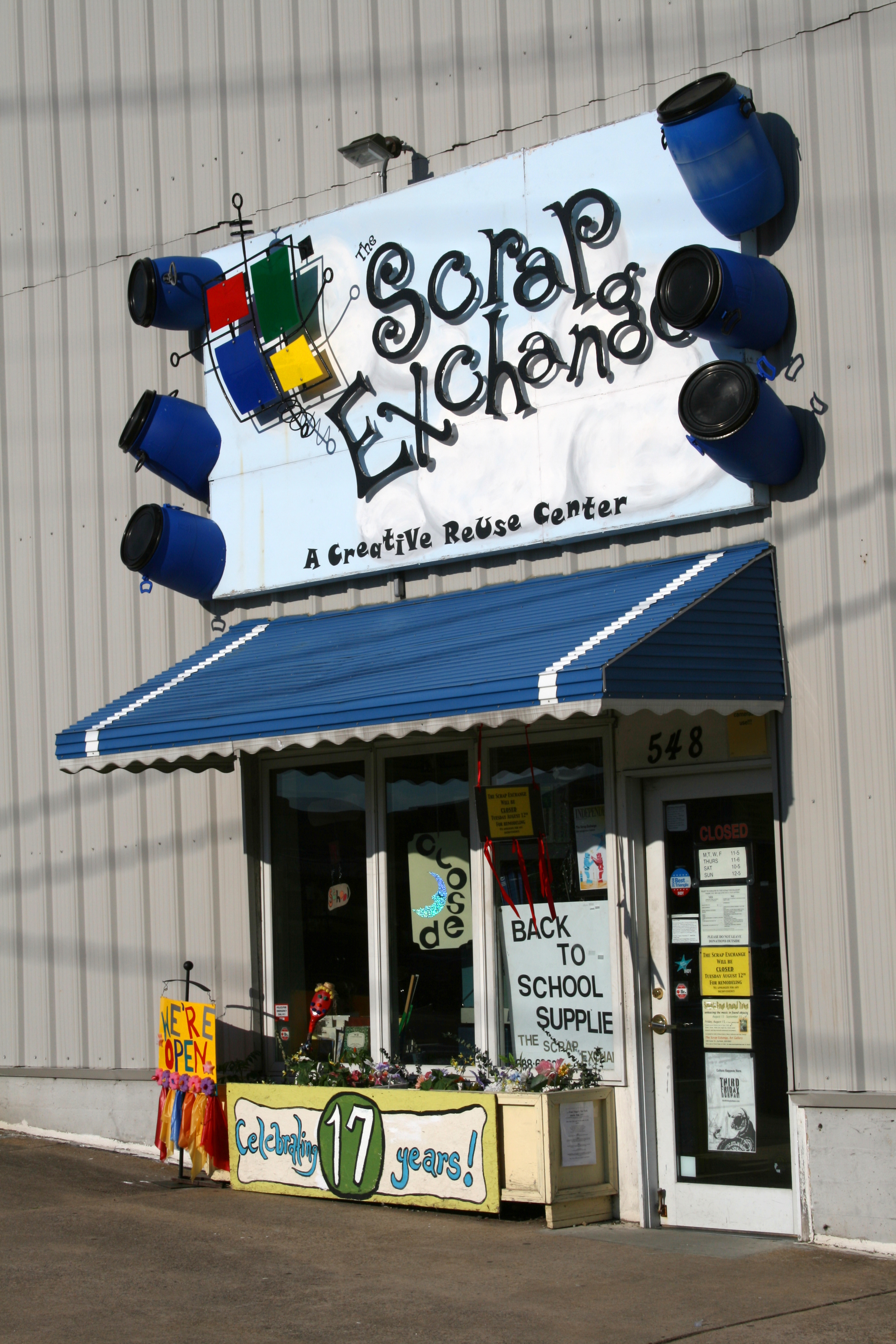 The Scrap Exchange, a scrapstore at 548 Foster Street in Durham, North Carolina.